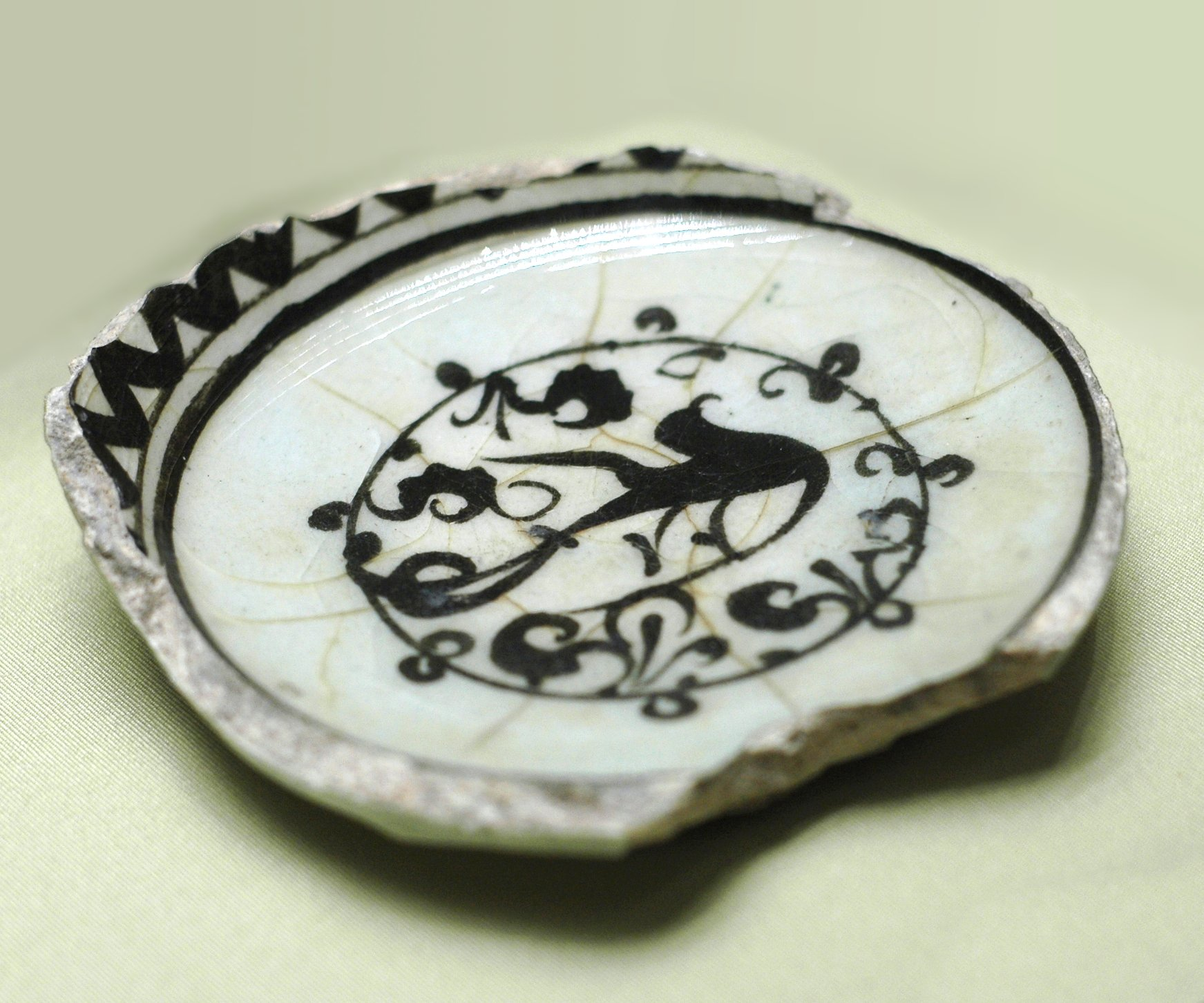 Bottom of a dish with stylized bird.